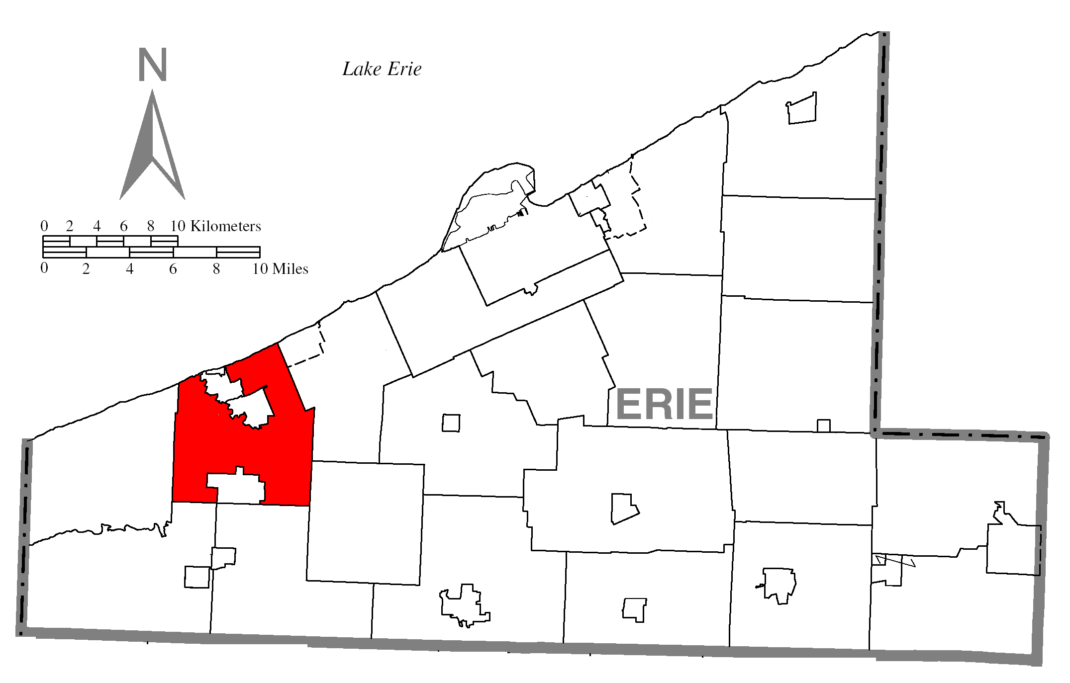 A map of Erie County showing Girard Township, Pennsylvania (alternate) highlighted on the map.